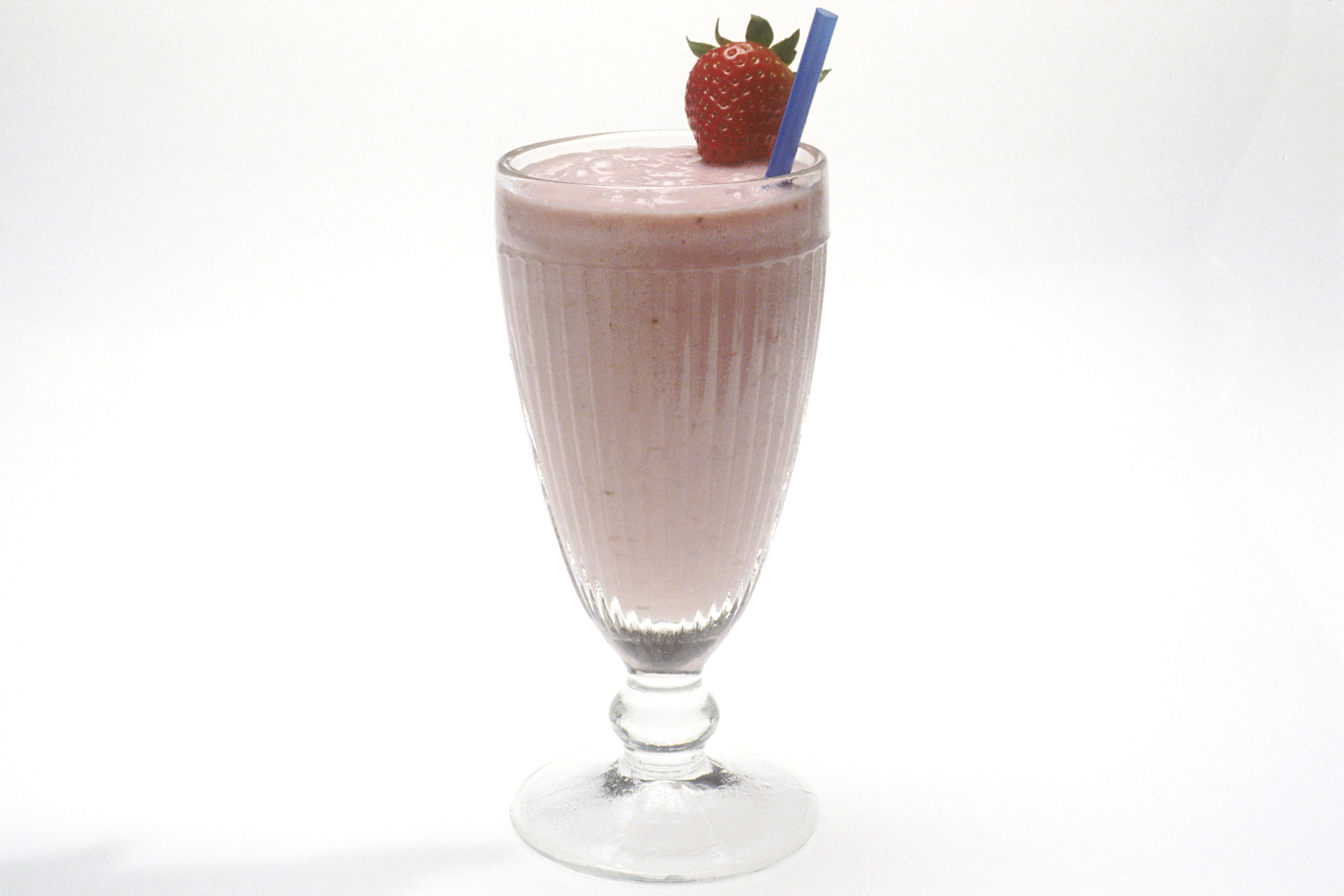 Title Strawberry Milk Shake Description A strawberry milk shake in a tall fountain style glass with a straw and garnished with a strawberry. Topics/Categories Food and Drink Type Color, Photo Source National Cancer Institute